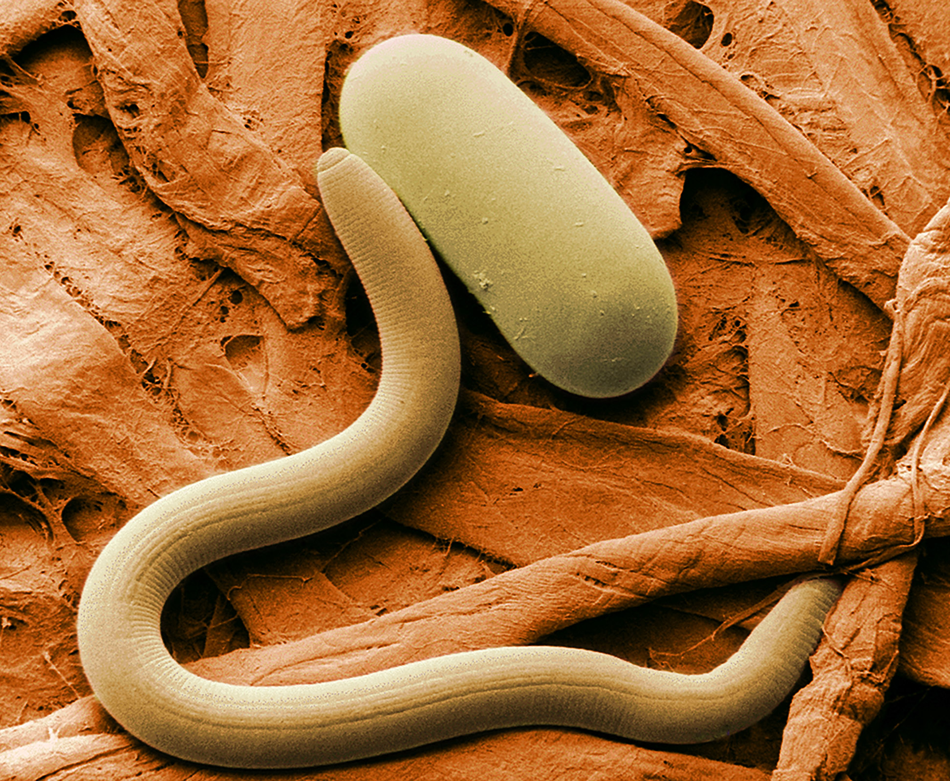 Low-temperature scanning electron micrograph of soybean cyst nematode and its egg. Magnified 1,000 times.